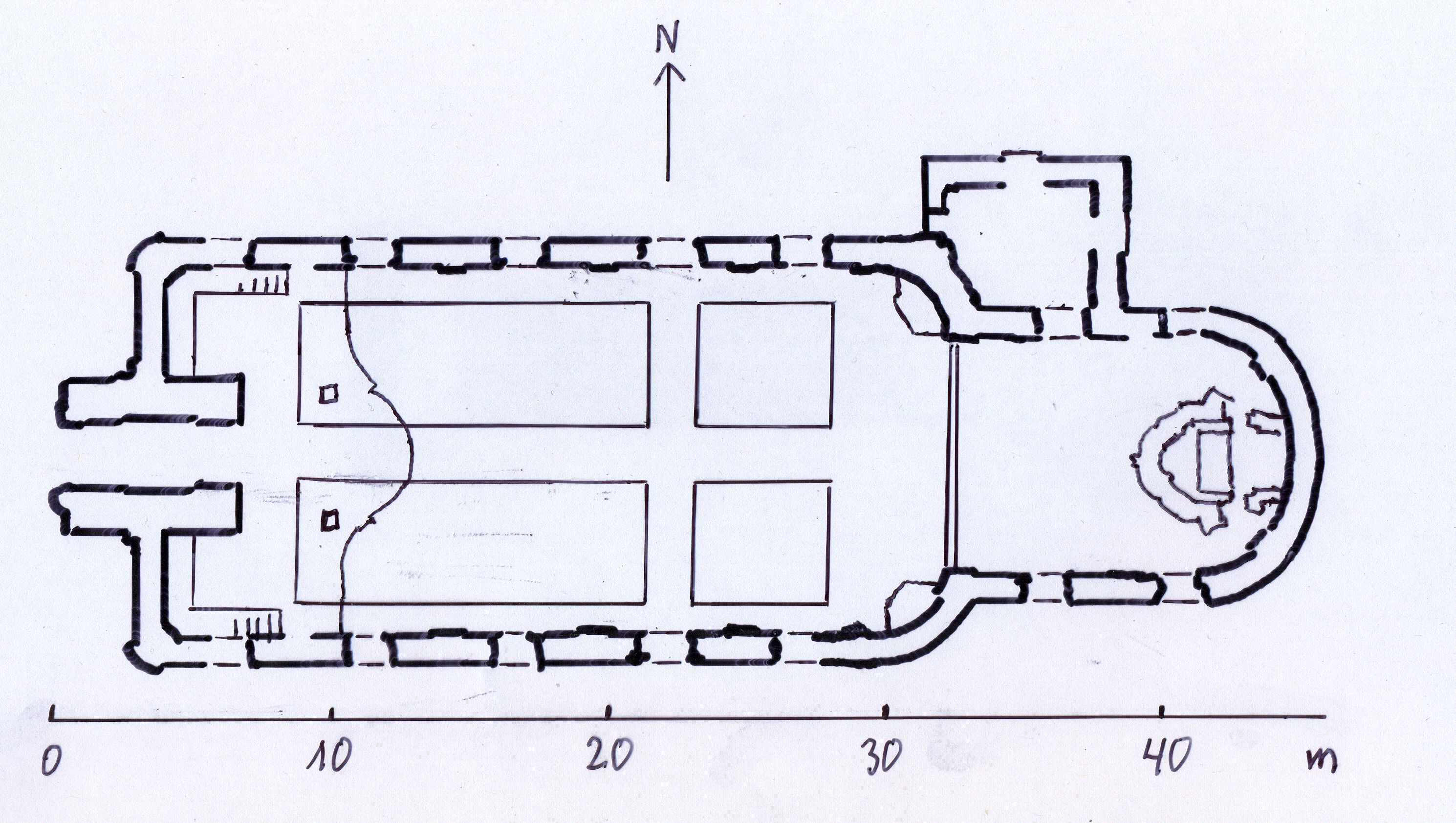 Ground map of St. Brigitta, Niederschopfheim, Baden-Württemberg, Germany. Based on Hermann Löffler: Die Kirche Sankt Brigitta in Niederschopfheim. Hohberg-Niederschopfheim 2003.